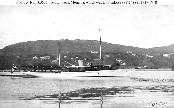 The yacht Monaloa prior to her United States Navy service as patrol vessel